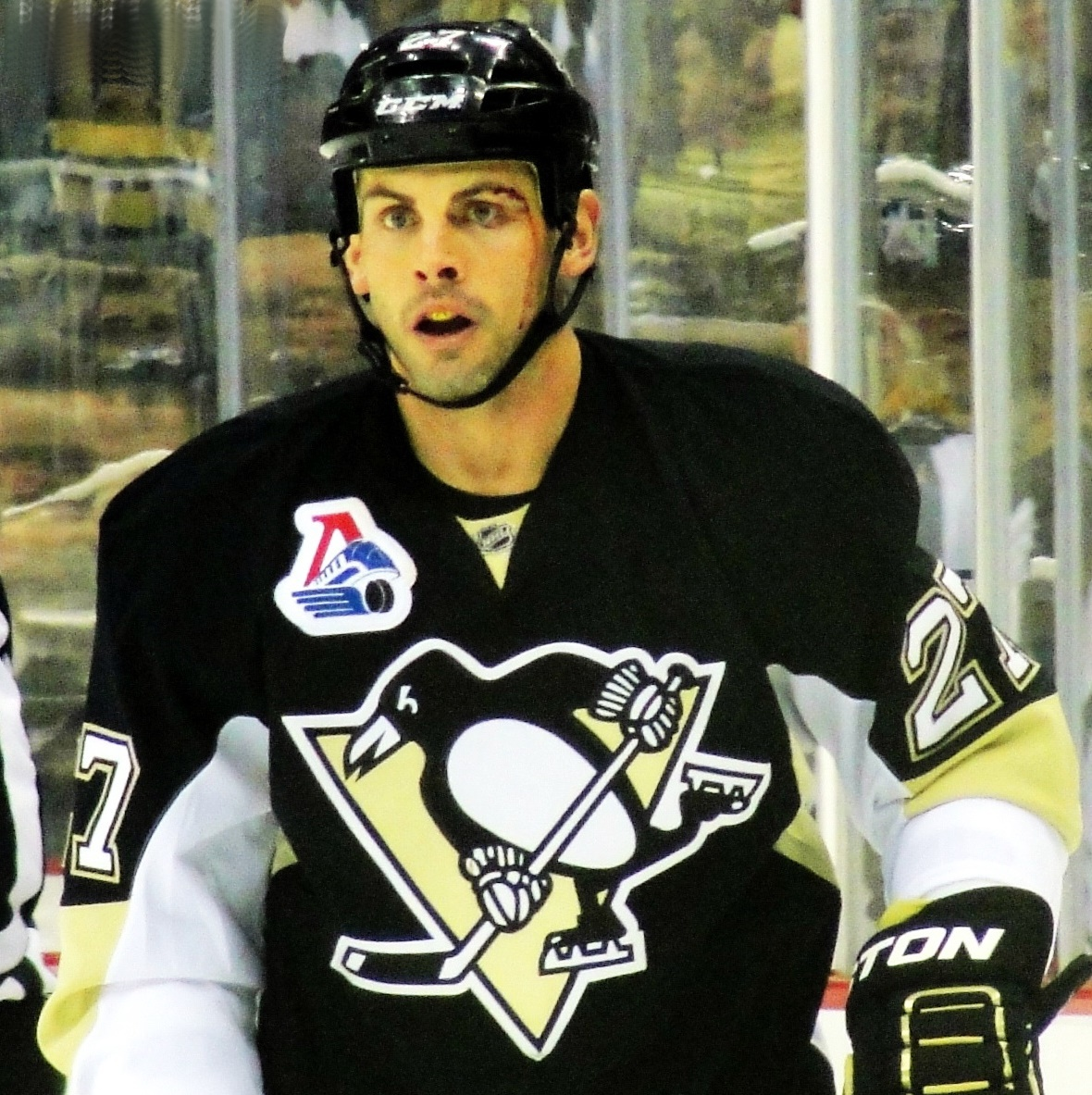 Craig Adams, Pittsburgh Penguins, after suffering a cut above his eye vs the Washington Capitals October 13, 2011 at Consol Energy Center in Pittsburgh, PA.